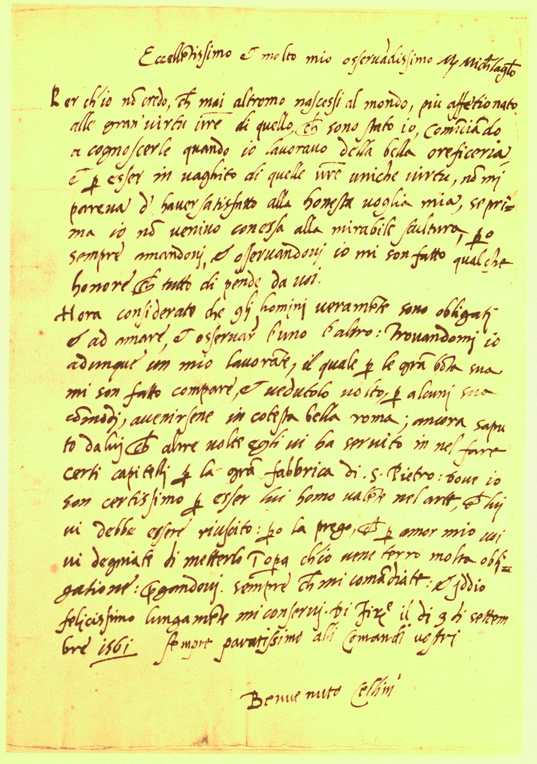 A letter of Benvenuto Cellini to Michelangelo. London, British Library, Additional MS 23139, fol. 14r.